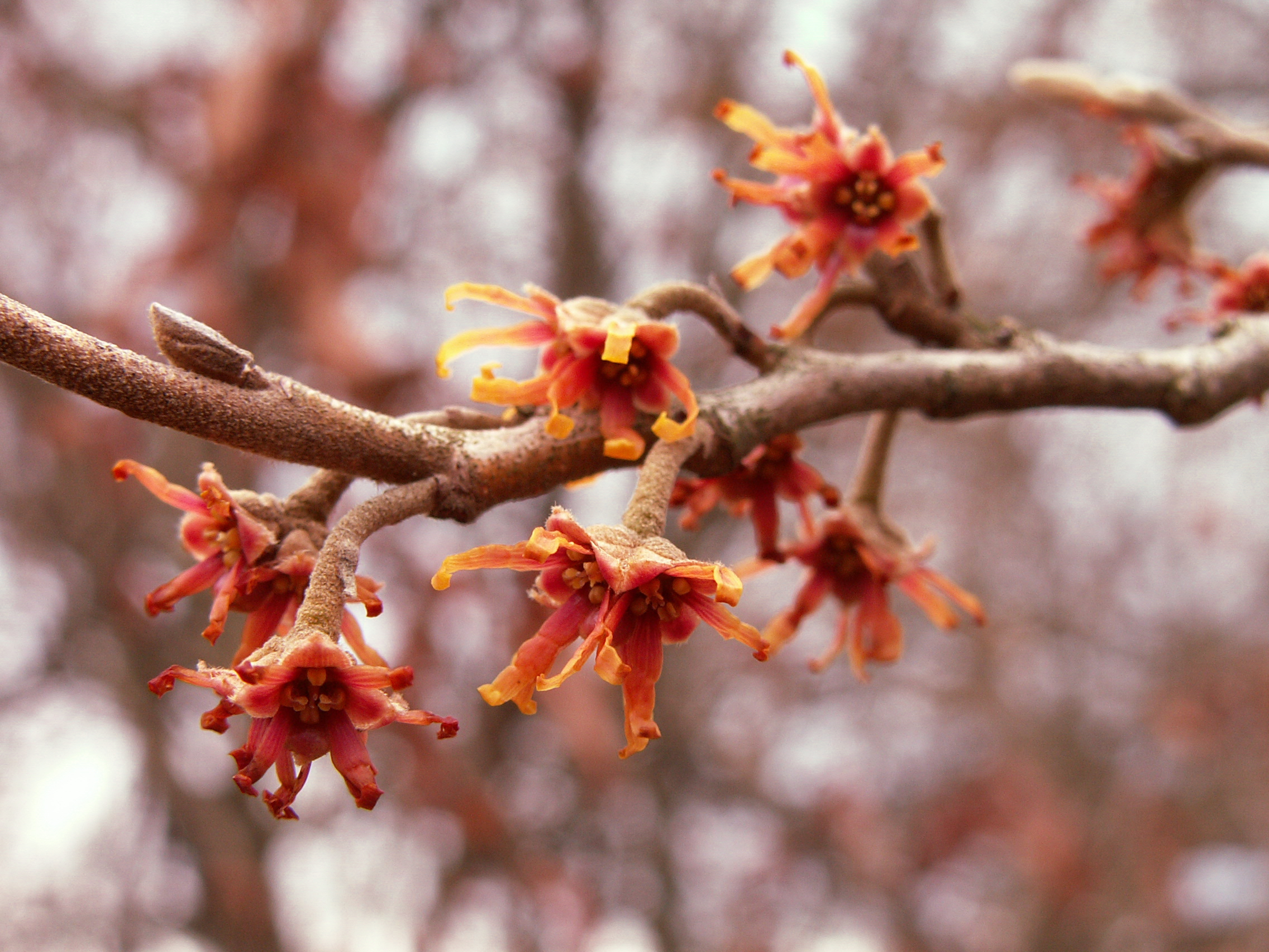 Hamamelis vernalis blooming in a garden in Pittsburgh, 2015